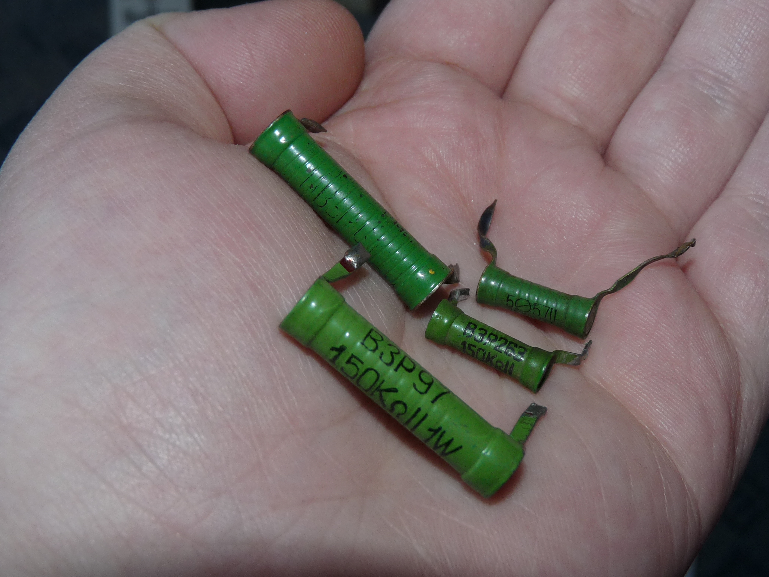 VZR resistors manufactures in USSR in 1960's